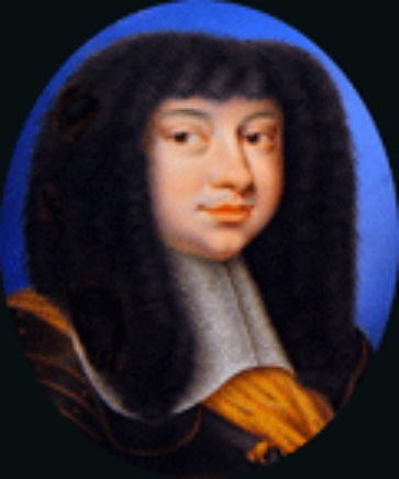 Portrait of King Michael Korybut Wiśniowiecki.